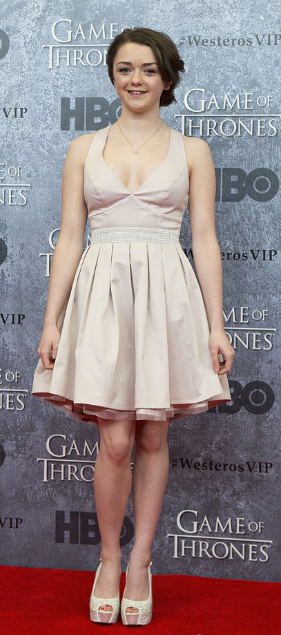 English actress Maisie Williams at HBO's "Game Of Thrones" Season 3 Seattle Premiere at Cinerama.